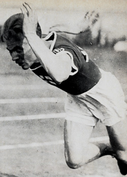 Finnish sprinter Jalmari Etholén (1902-1992) at the 1925 Workers' Olympiad in Frankfurt am Main.